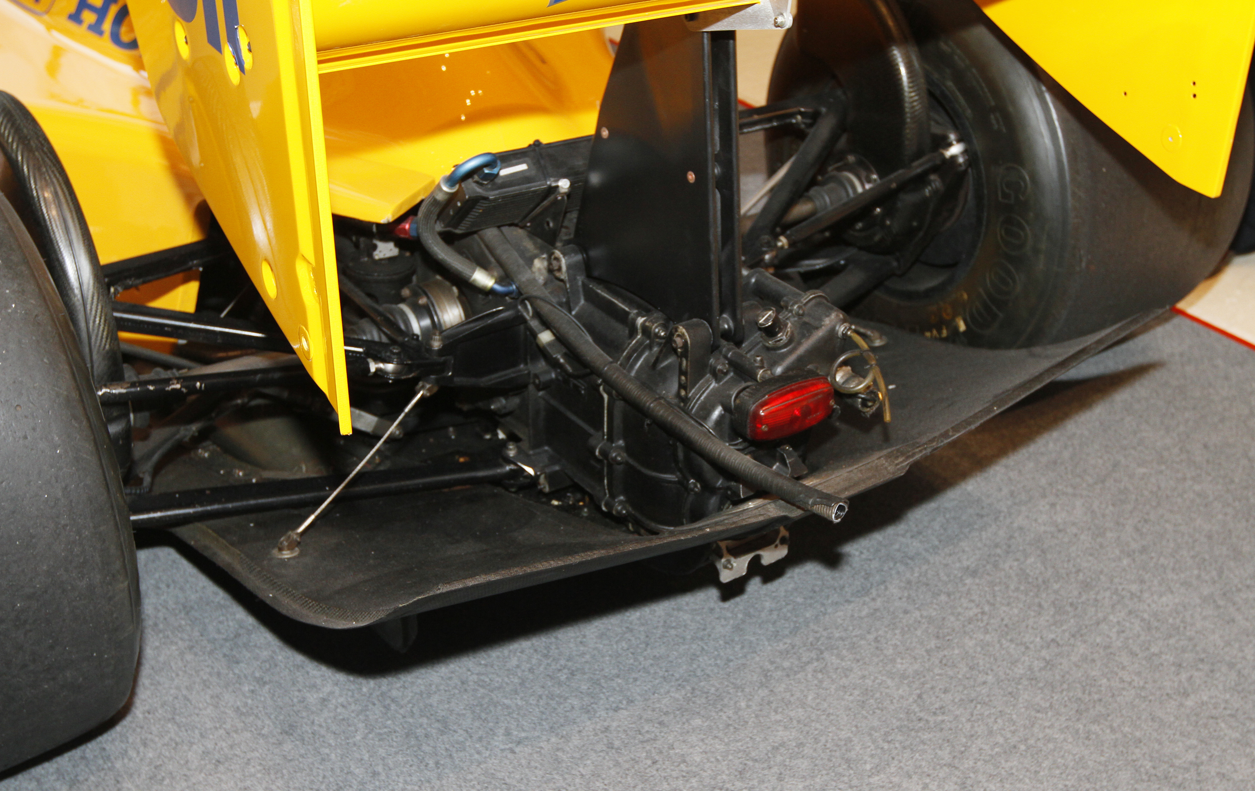 Pavilion Pit Stop 2010: Lotus 99T's diffuser